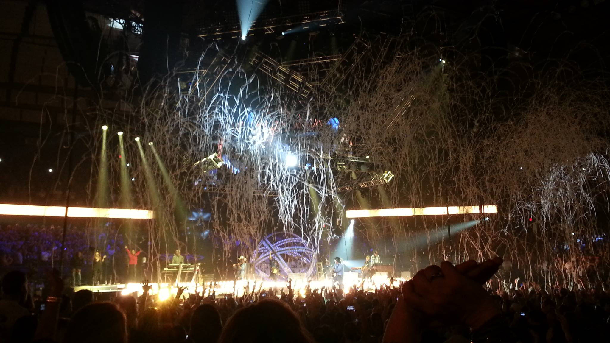 Garth Brooks in Chicago on his tour in 2017.